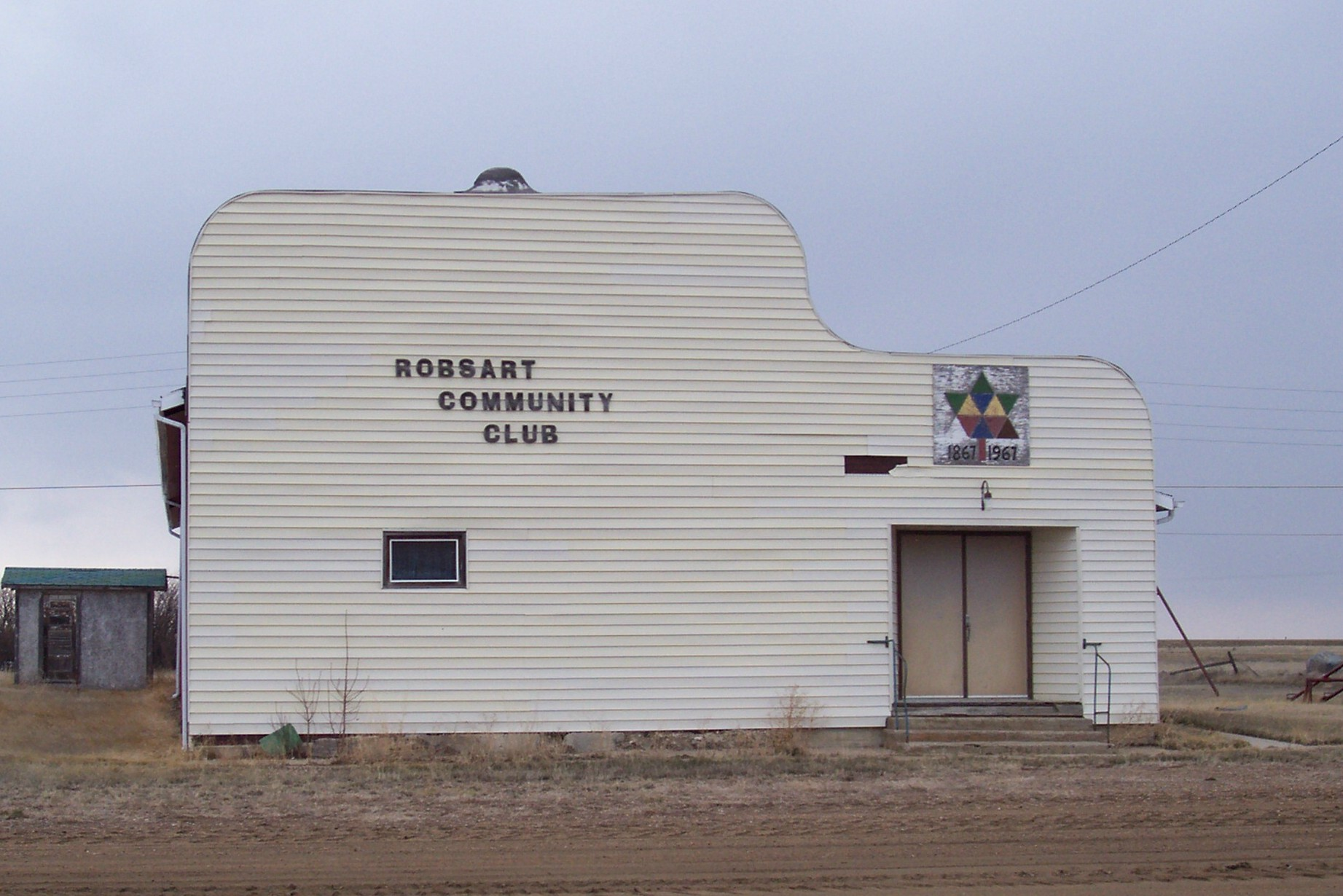 Photo taken of the Robsart Community Hall in Robsart 2007/04/11